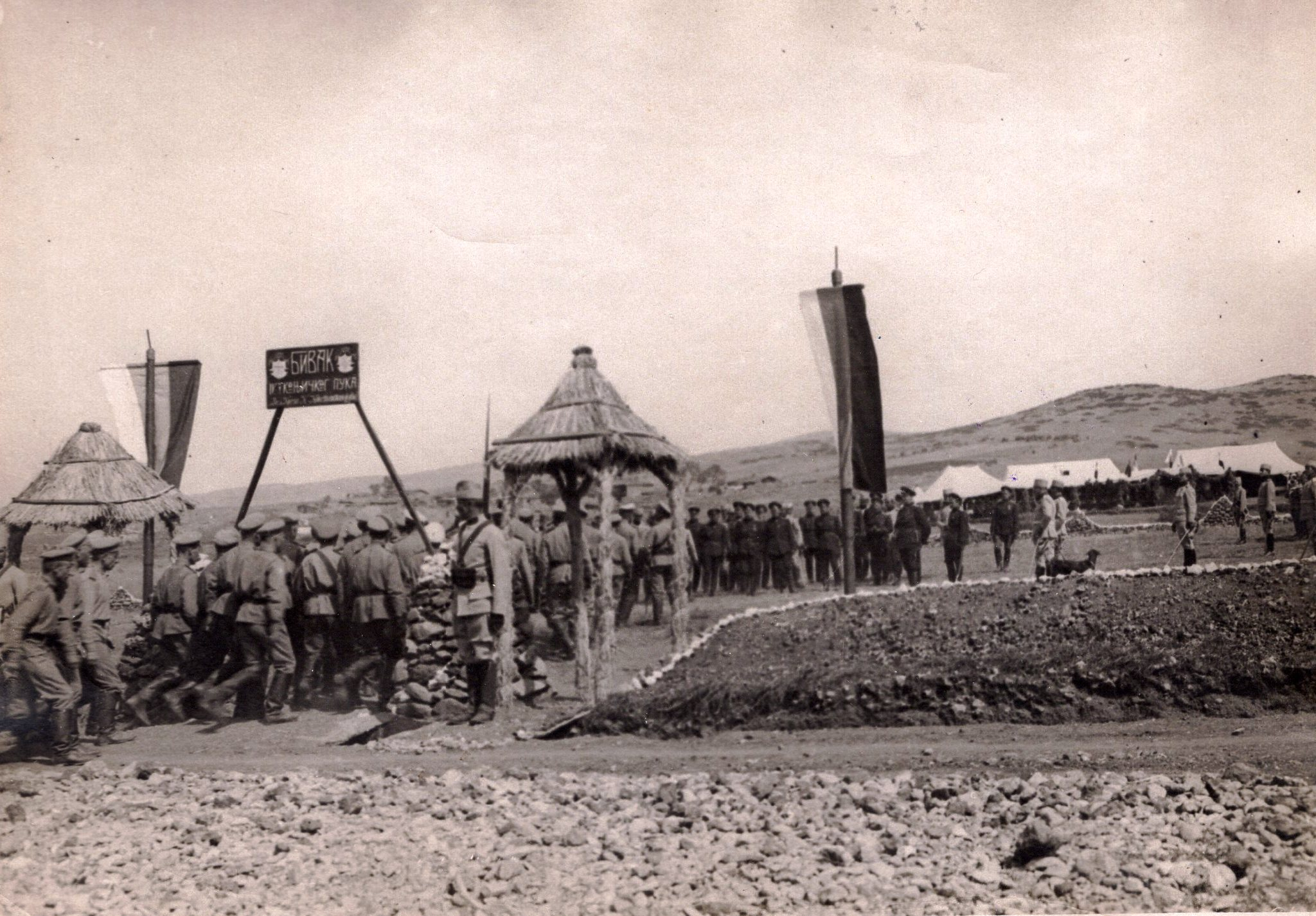 Serbian military camp, Macedonian Front, World War I (2 August 1916) This media file is produced by Wikipedian in Residence in Category:Wikipedian in Residence at DARM in 2016.